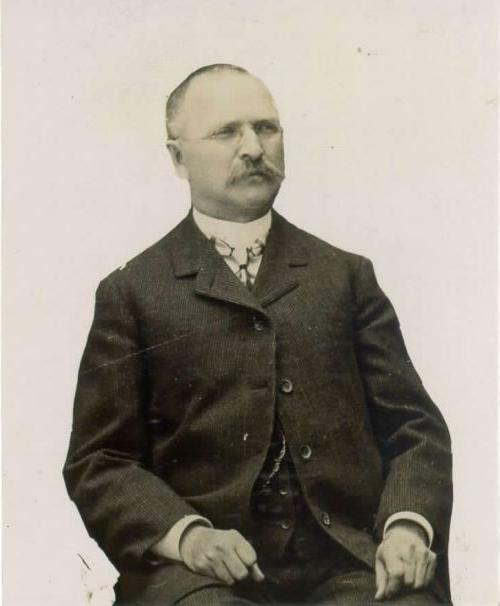 Franc Novak (1856-1936)